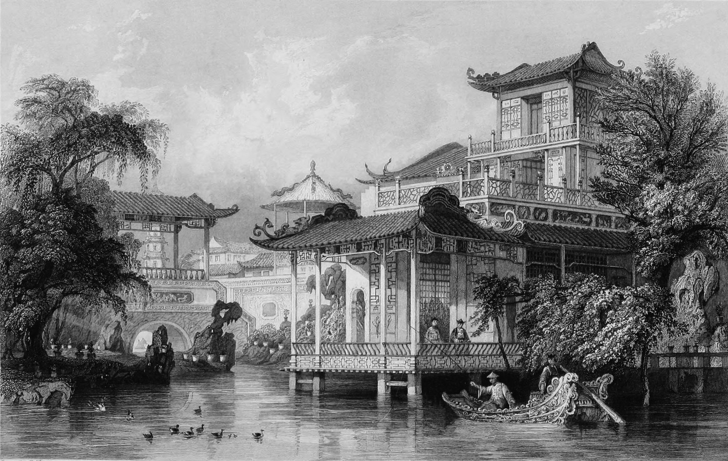 House of a Chinese Merchant, near Canton